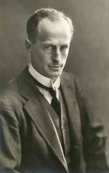 Sir Douglas Mawson, 1914